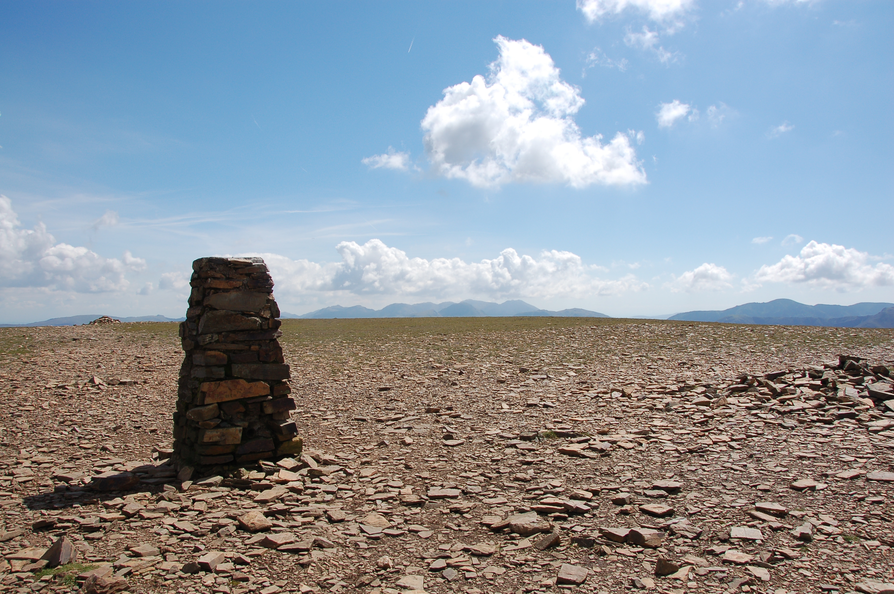 Crag Hill summit taken by Alfred Gay on the 9th of August 2007. This image is relevant to the Crag Hill (Lake District Fell) article. The triangulation column on the summit of Crag Hill and the view south to the Scafell range.